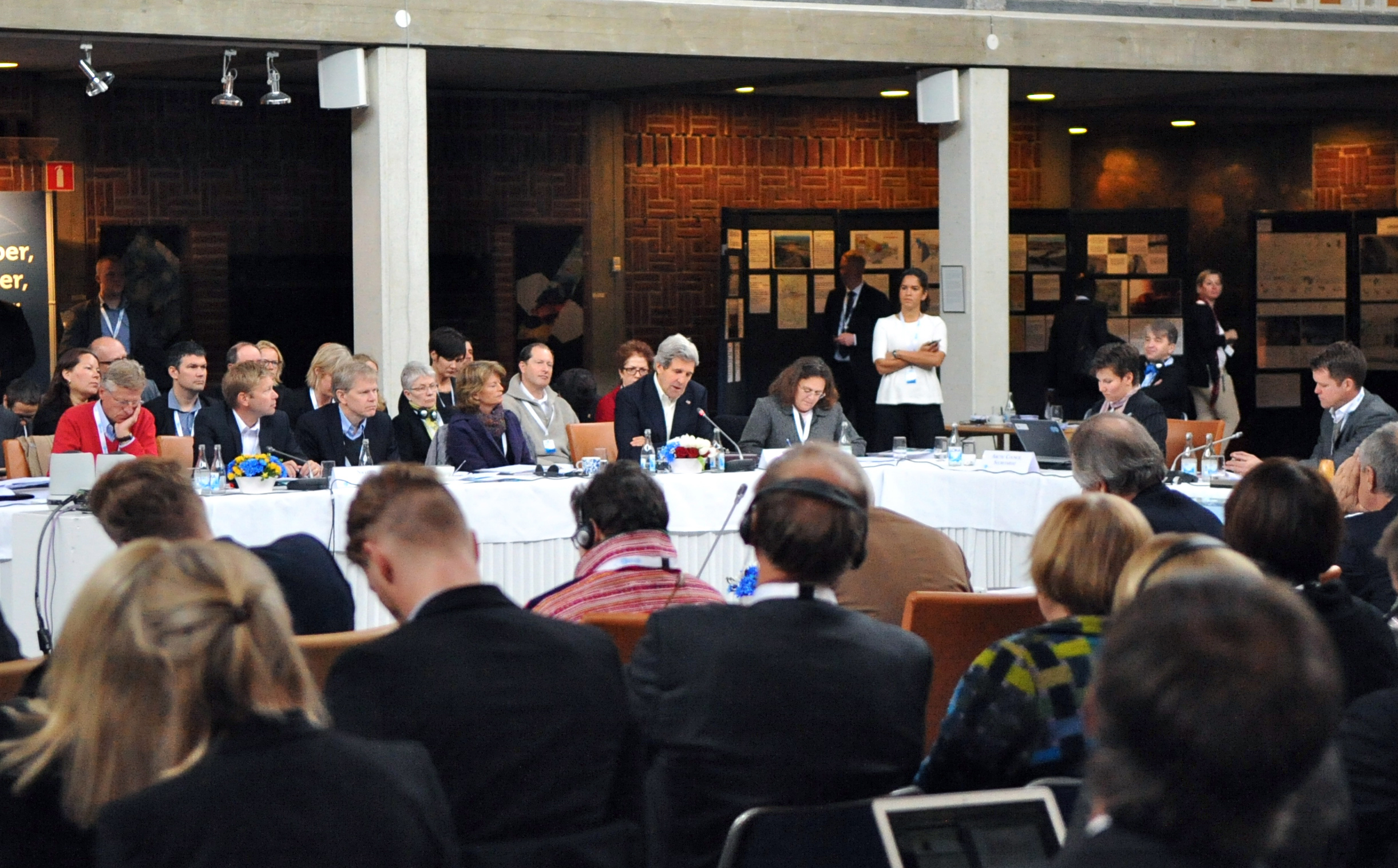 U.S. Secretary of State John Kerry addresses the Kiruna Ministerial Meeting of the 8th annual Arctic Council meeting at the City Hall in Kiruna, Sweden on May 14, 2013. [State Department photo / Public Domain]